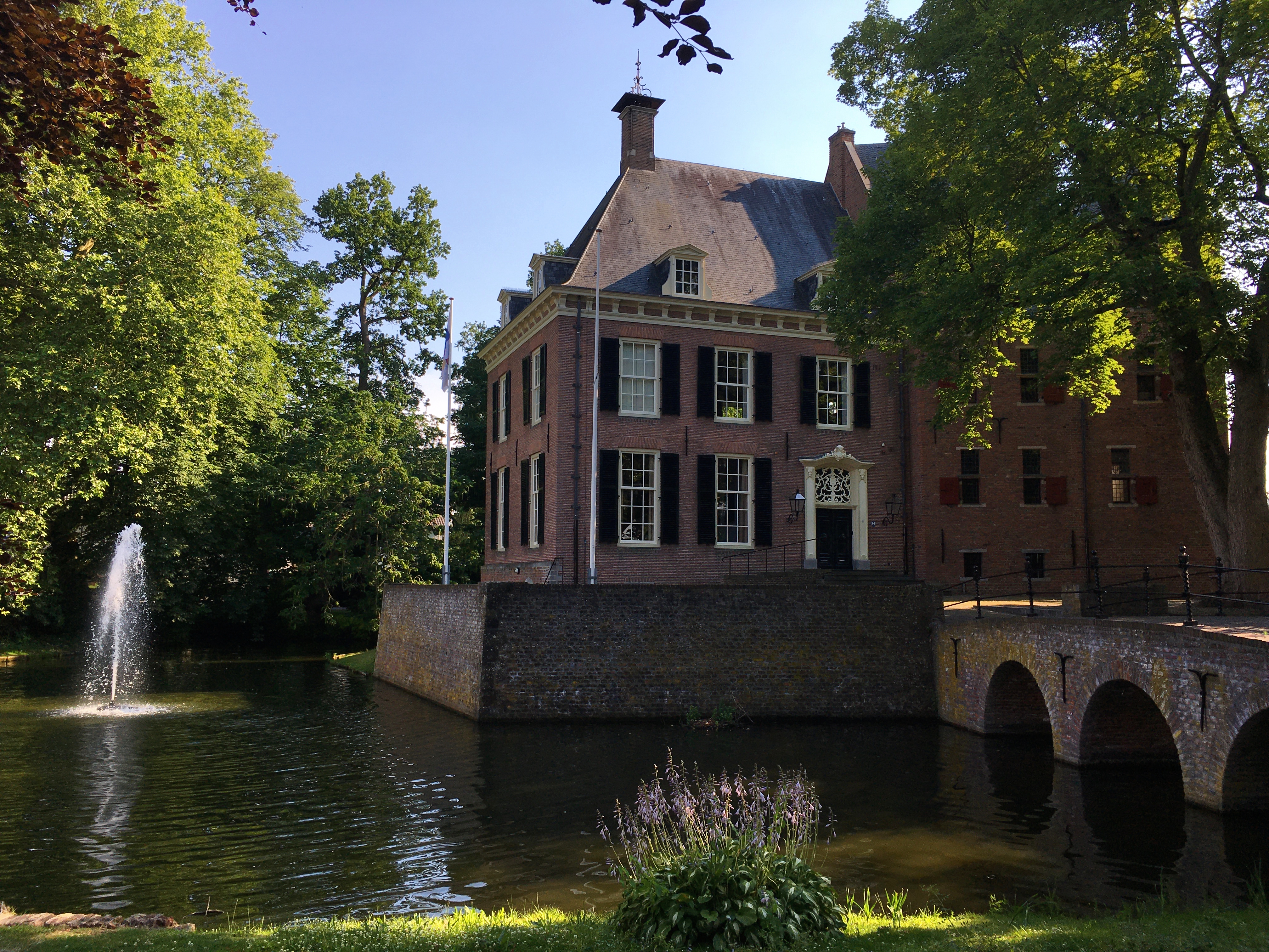 De Kinkelenburg, a castle in Bemmel (Lingewaard)